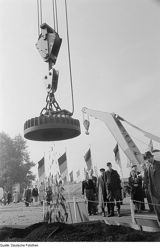 Demonstration of industrial lifting electromagnet on crane. VEB Heavy Engineering, S. M. Kirow, Leipzig.